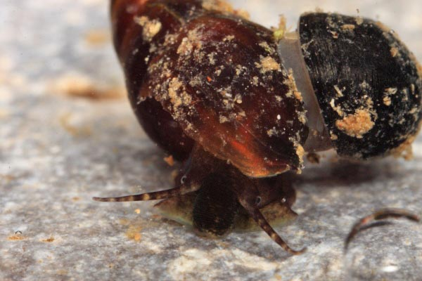 Esperiana daudebarti daudebarti, Bad Vöslau, Lower Austria